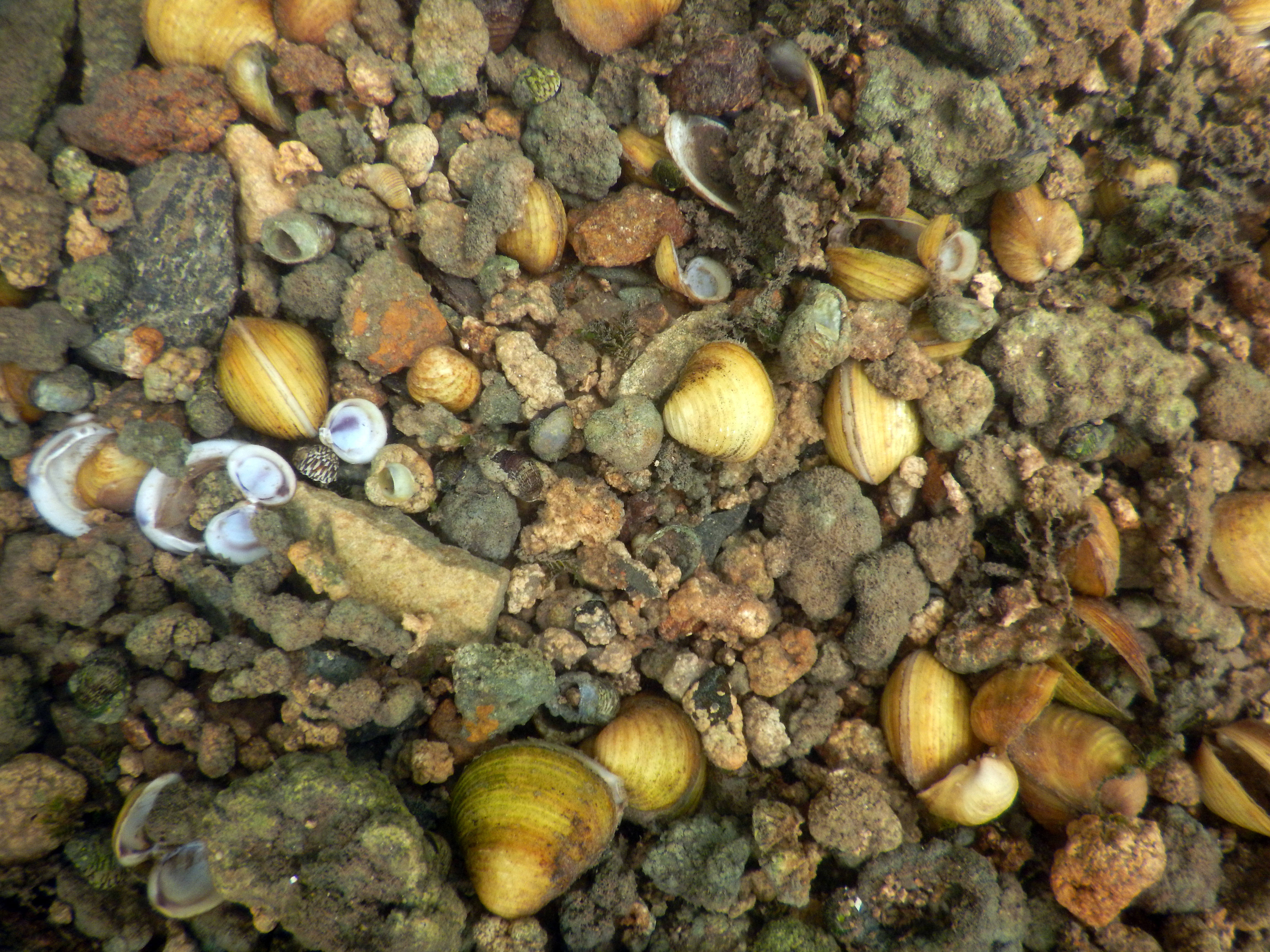 Corbicula here photographed in a mineral encrustation active area (algal and or bacterial origin) photographed (in August 2016) on the bottom of the river "Sèvre Niortaise" in a shallow and well lit place, called "Roman Bridge of Azay-le-Brûlé "(France). On these crusts various invertebrates, including gammares and many Theodoxus can be observed. This section of the river is rich in crusting areas that typically form it from horizontal carpet aquatic of mosses (bryophyta) or vertical carpet of Marchantiophyta. Note: Not very thick crust (more than a few cm thick) are found on the battery or the medieval bridge on rocks a priori old, suggesting that the phenomenon is recent. Another note: the crusts are not on lead sinkers (metal toxic and Ecotoxical) neither on some rocks or on pieces of dead wood (to be confirmed by more attentive observations).